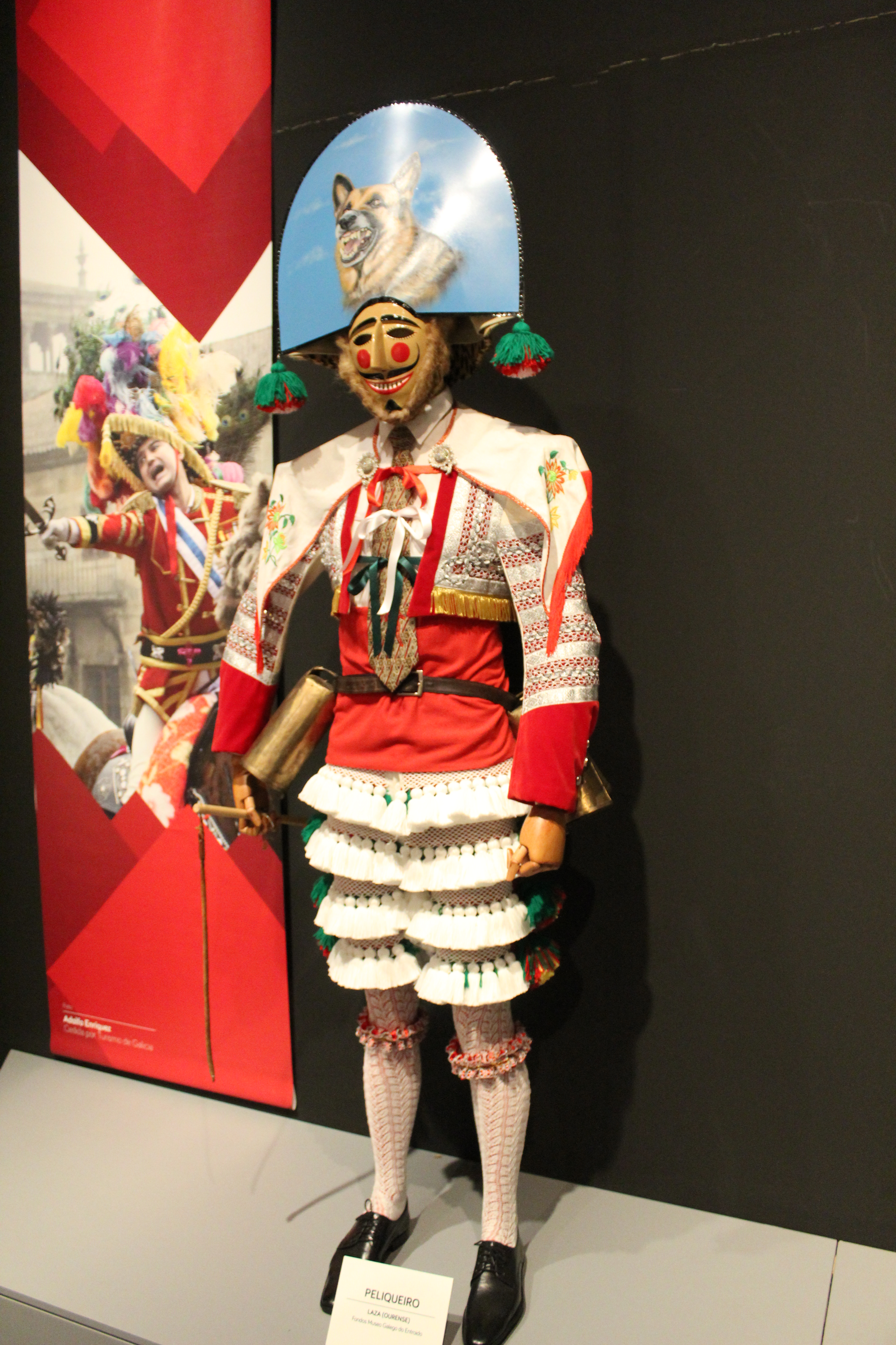 Traxe típico do Entroido de Laza